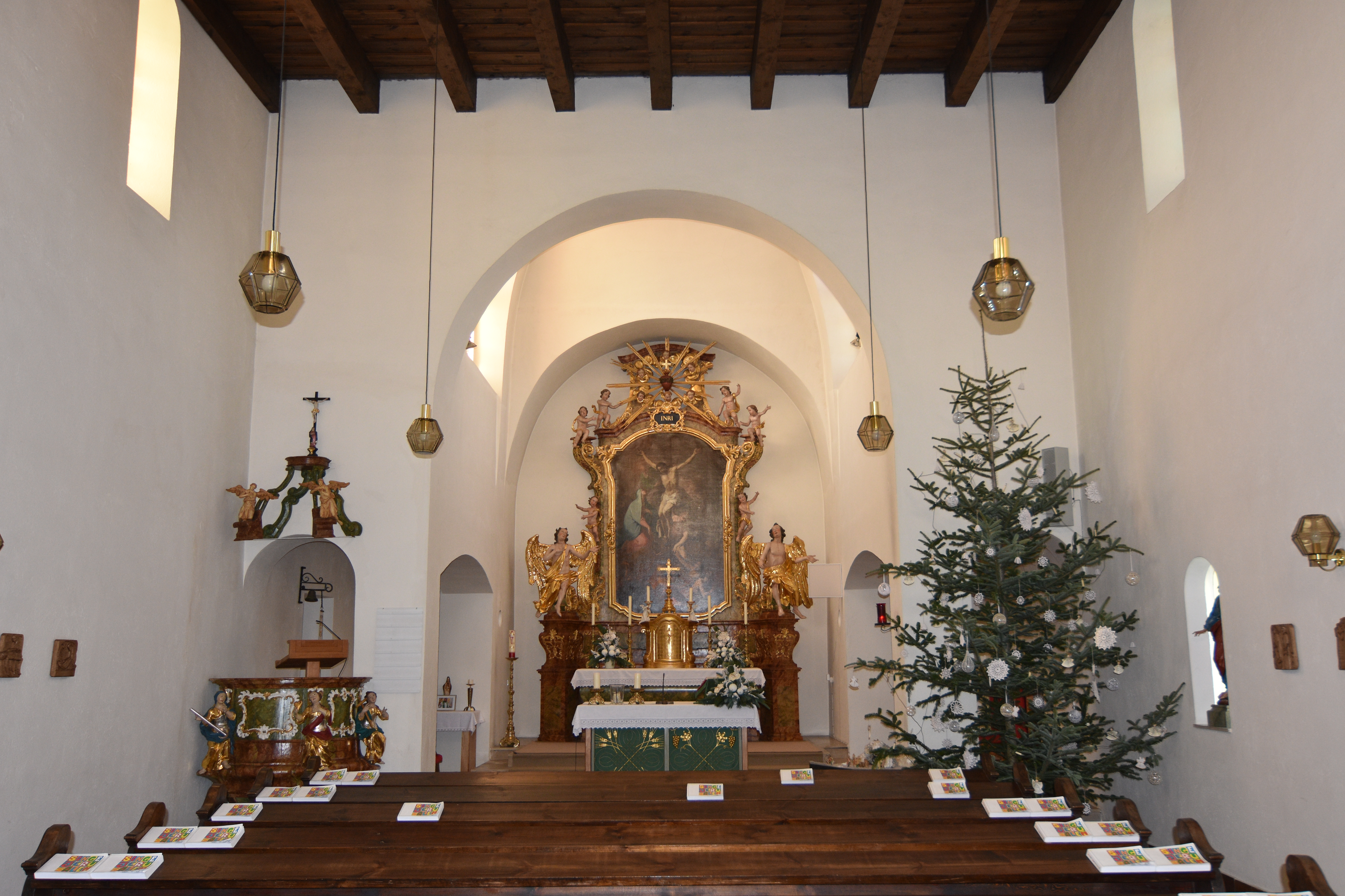 Church Markt Allhau - Interior